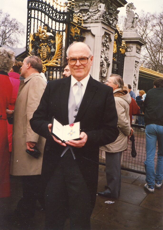 Prof T S West, Director Macaulay Soil Reserach Institute, Aberdeen, receiving CBE at Buckingham Palace 1988